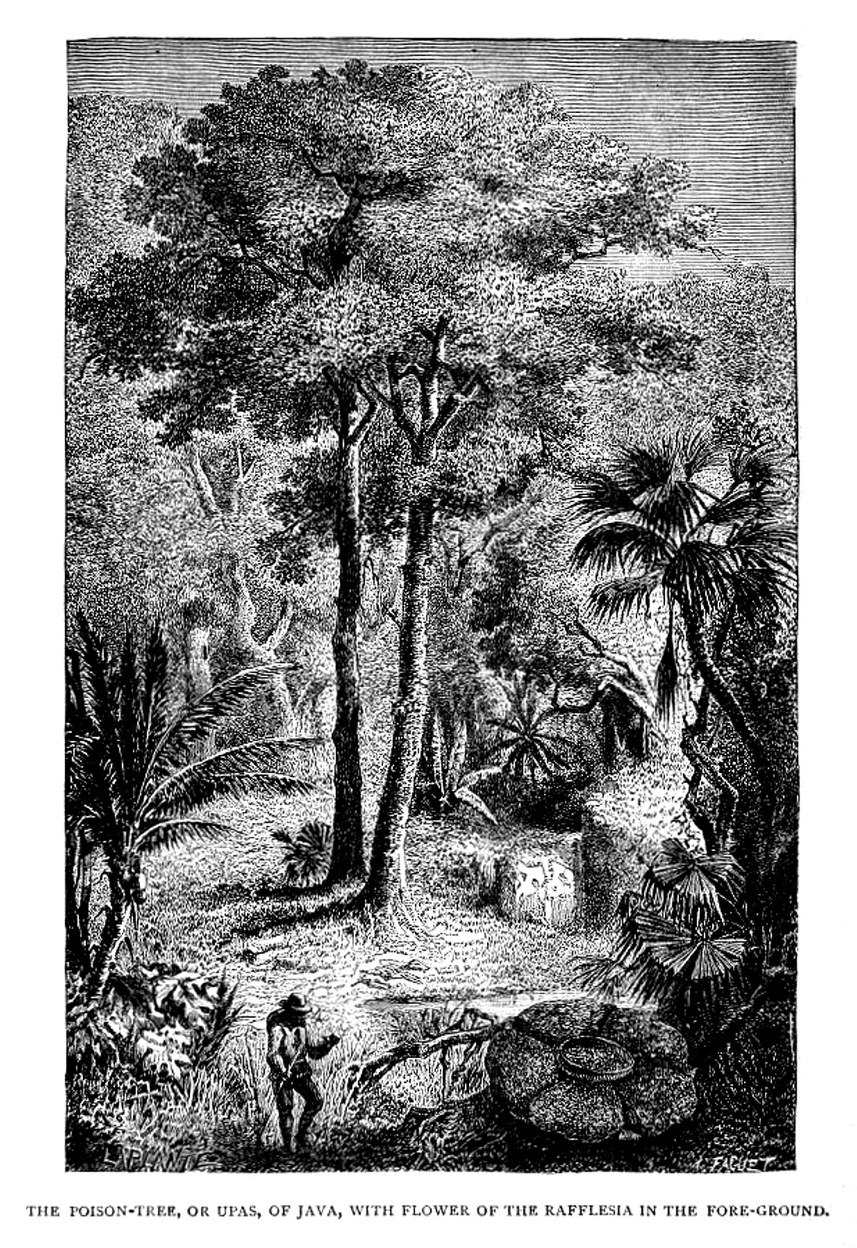 Upas Tree - Antiaris toxicaria - 1887 Illustration from Buel, James William (1887). Sea and Land: An illustrated history of the wonderful and curious things of nature existing before and since the deluge. Toranto: J.S. Robertson & Brothers. pp. 472.